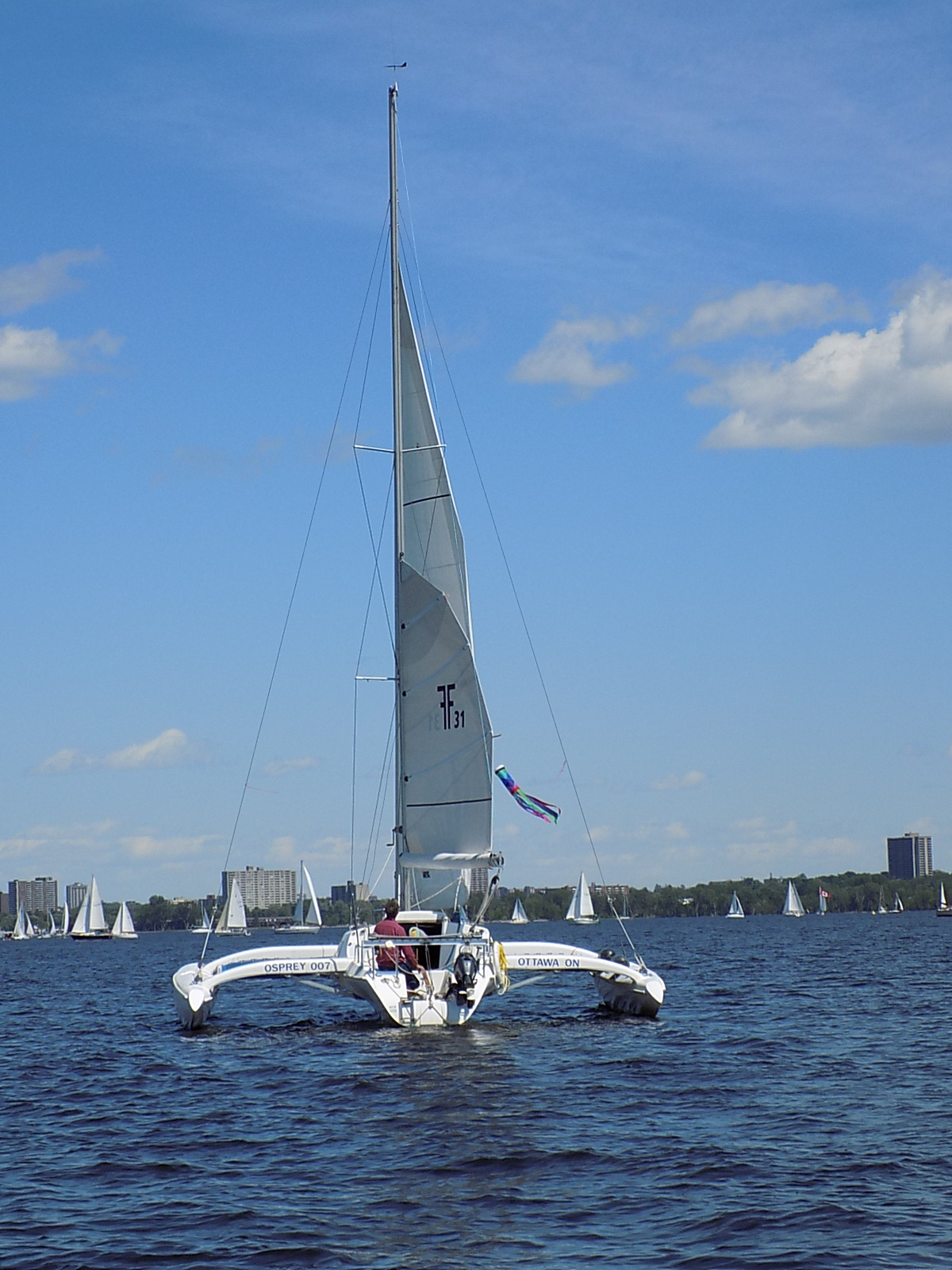 A Corsair F31 trimaran sailboat named Osprey.